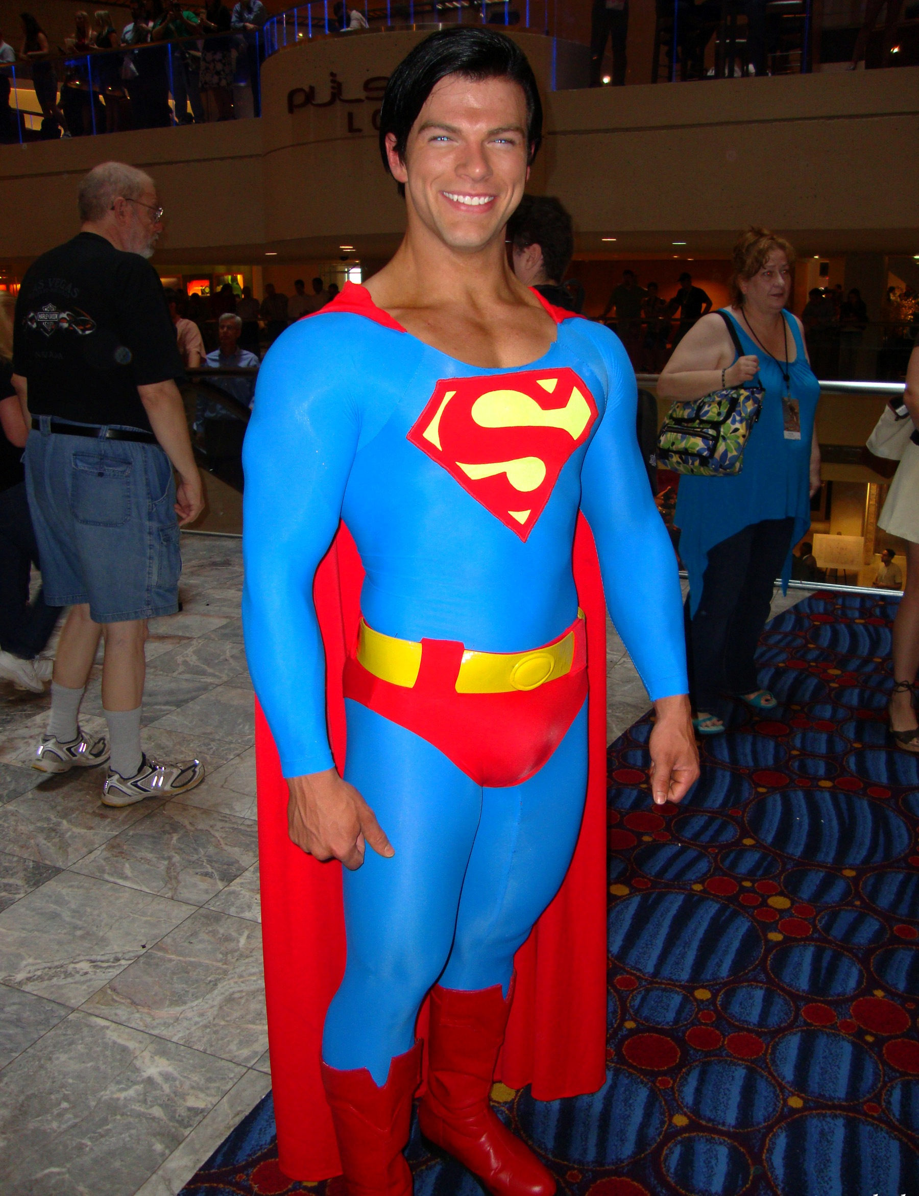 Superman cosplayer @ 2010 Dragon Con in Downtown, Atlanta, GA, US.